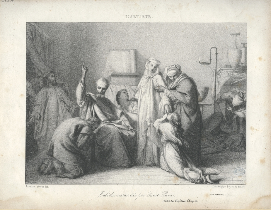 Lithograph by Auguste Bry of the painting Tabitha ressuscitée par saint Pierre (Tabitha raised from the dead by Saint Peter) by Alexandre Laemlein. The original painting is in the church Saint-Pierre de Gaubert in Boé (Lot-et-Garonne, France).